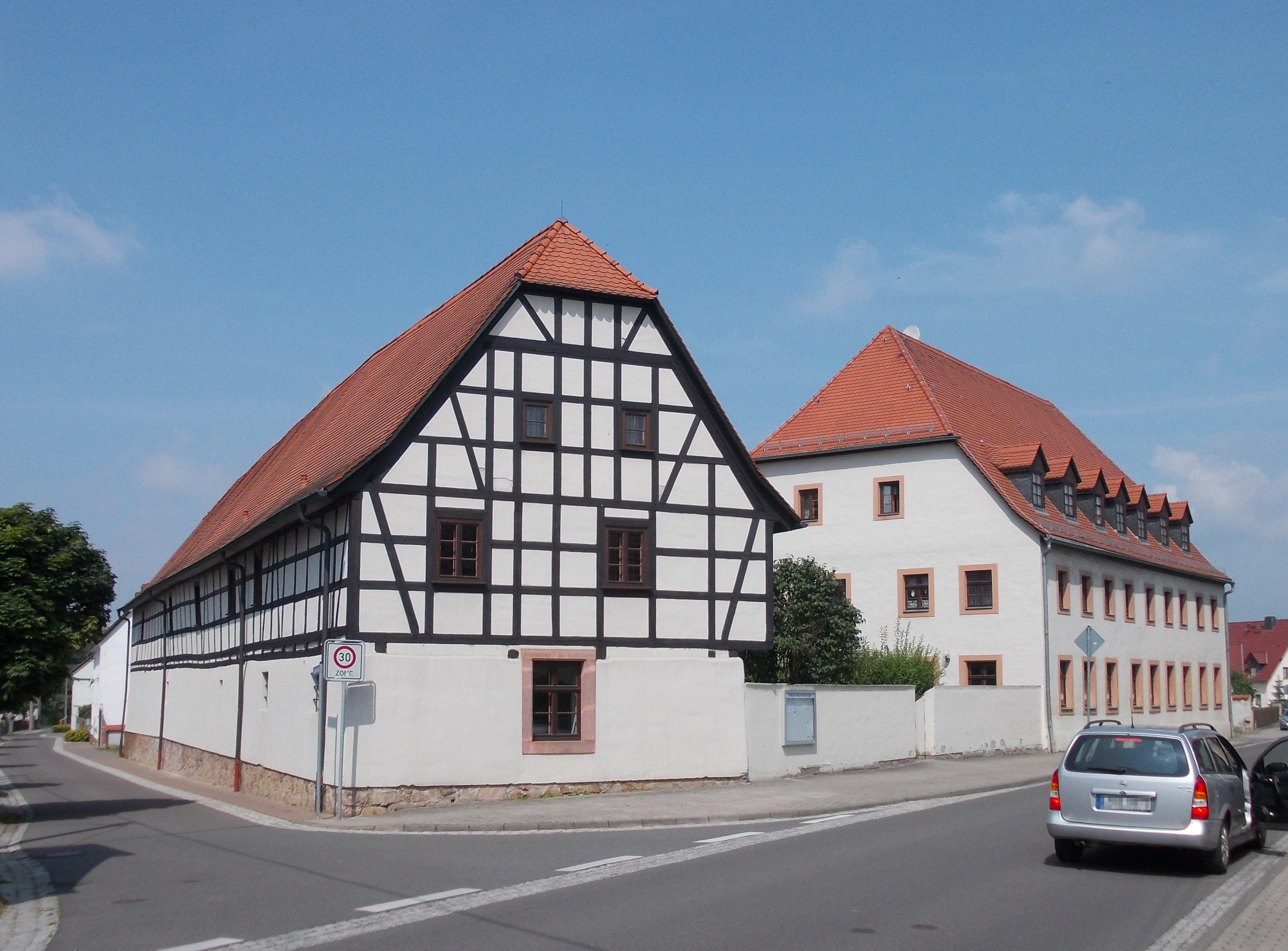 Old postal estate in Lobstädt (Neukieritzsch, Leipzig district, Saxony)